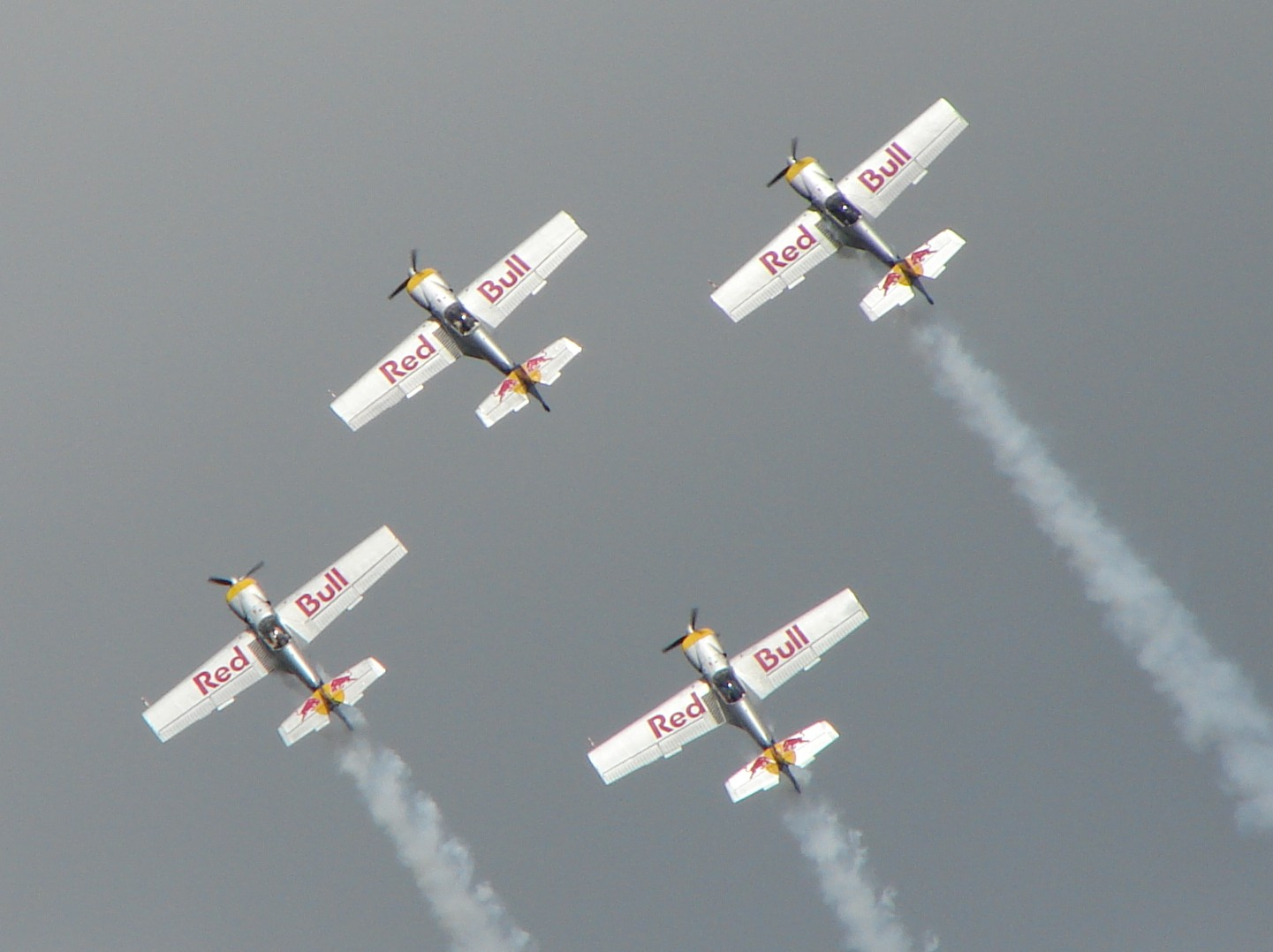 Flying Bulls Aerobatics Team during an Air Show in Krems, Austria